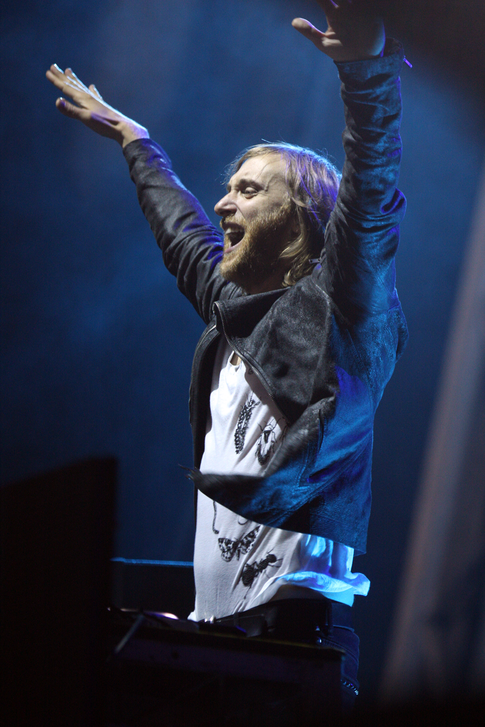 David Guetta Performs Live at Creamfields, Sydney, Australia 2012.